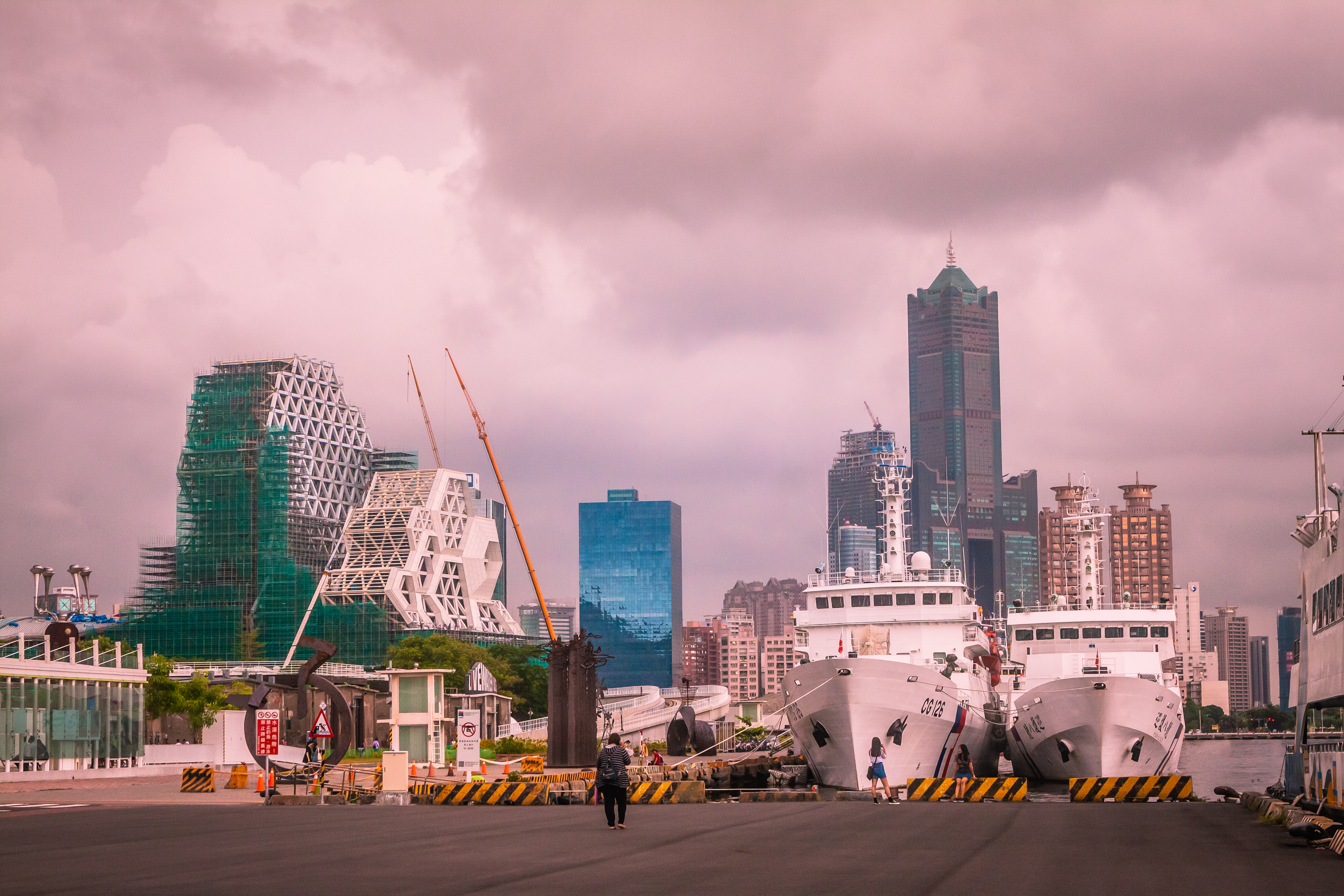 Skyline of Kaohsiung harbor from Pier 2 Art District, Kaohsiung, Taiwan in 2018